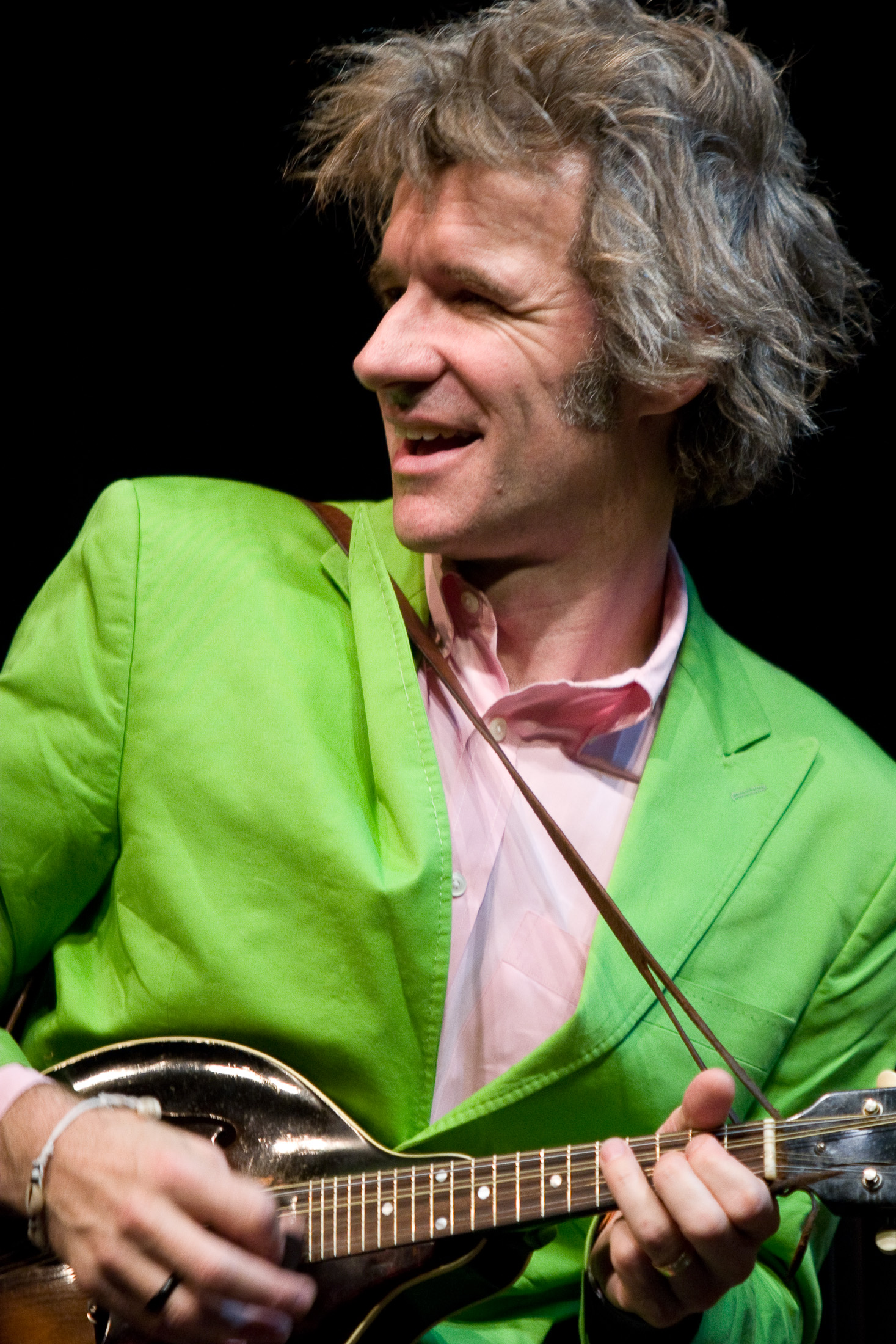 Dan Zanes, formerly of the Del Fuegos, now an all-ages solo artist, in concert.